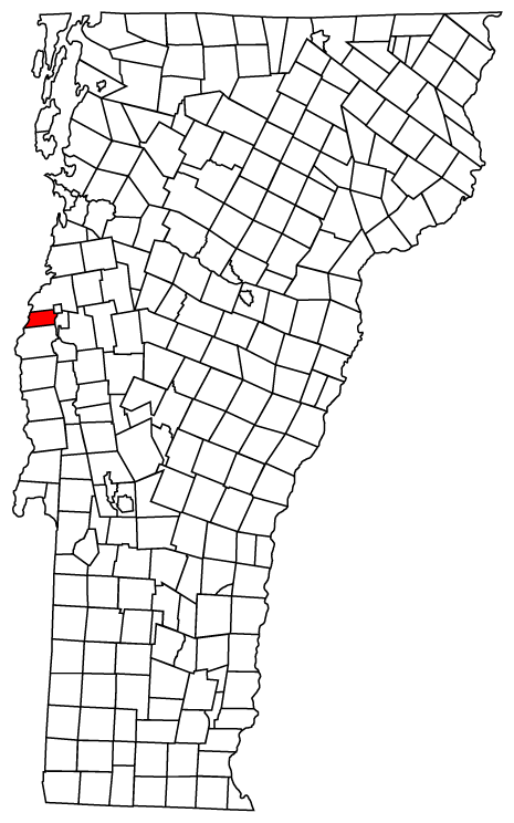 Description: Map of Vermont towns with Panton highlighted Source: Map created by Jared C. Benedict on 26 March 2004. Copyright: © Jared C. Benedict.